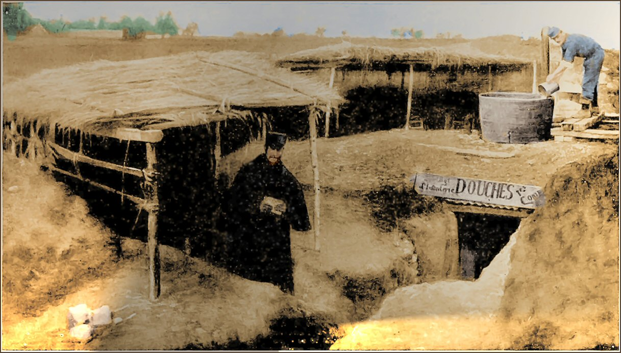 HOT SHOWER-BATH ESTABLISHMENT INSTALLED BY AN INGENIOUS FRENCH ENGINEER